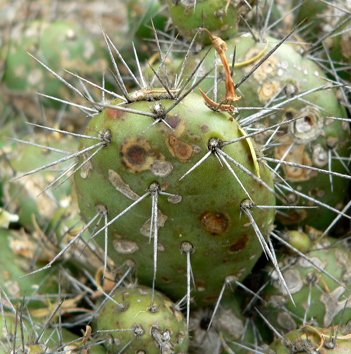 Photo of Opuntia fragilis at the University of California Botanical Garden